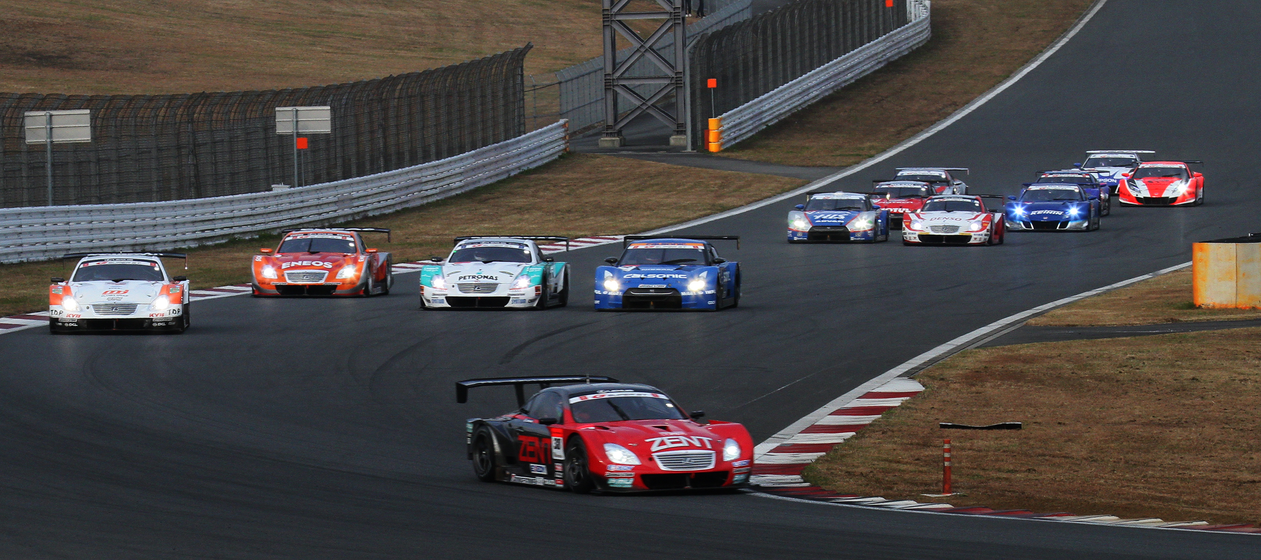 2010 JAF Grand Prix - GT500 Race 1: opening lap.